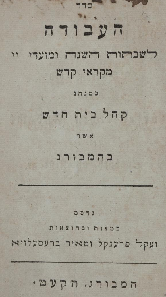 Hebrew title page of the 1819 Hamburg Reform prayerbook, the first comprehensive Reform liturgy, deliberately omitting the pleas for restoration of the sacrificial cult in Jerusalem.